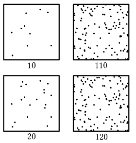 An illustration of the Weber-Fechner law. On each side, the lower square contains 10 more dots than the upper one. However the perception is different: On the left side, the difference between upper and lower square is clearly visible. On the right side, both squares look almost the same.